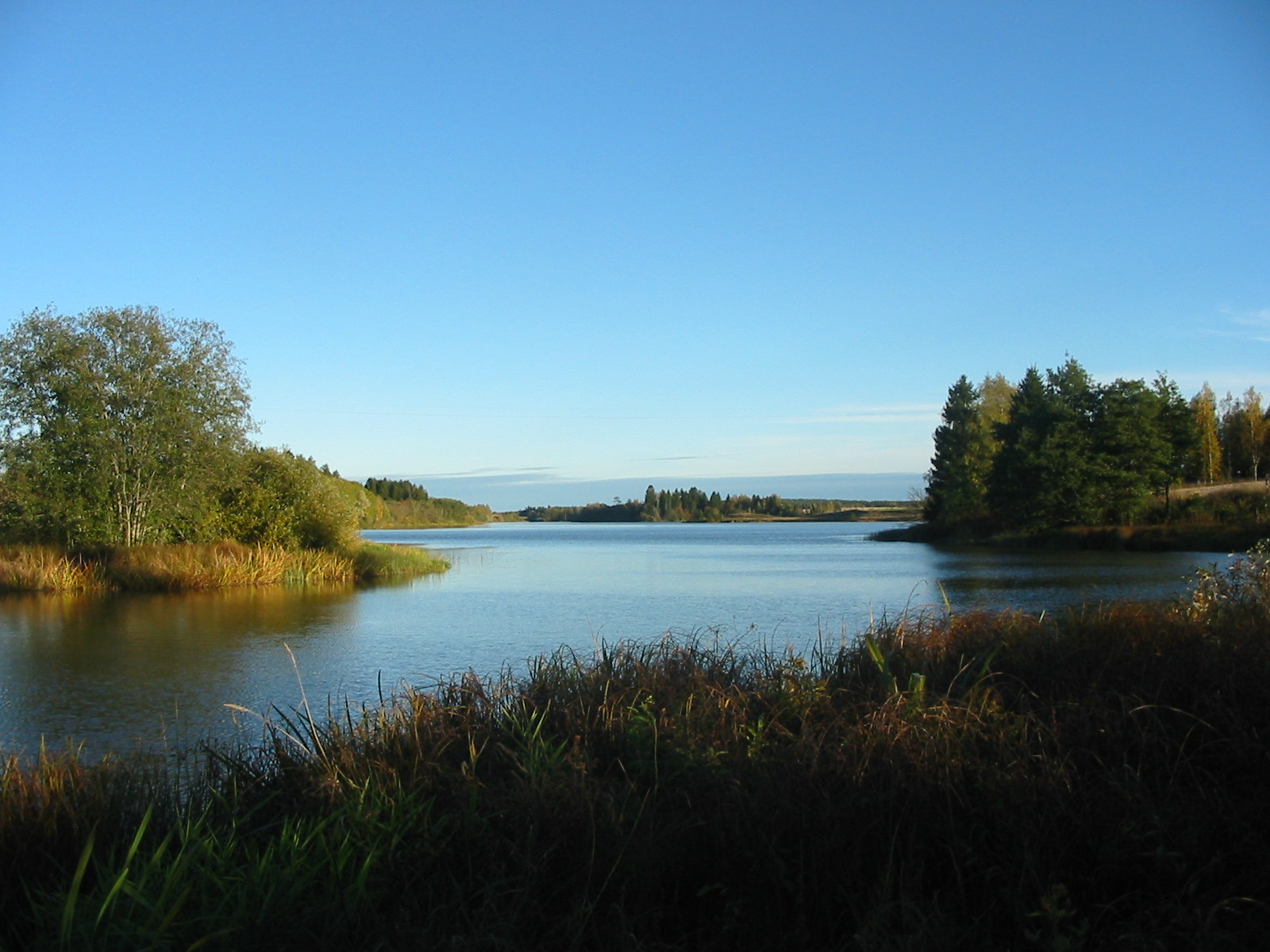 Lake Pitkäjärvi ion Somero, Finland, seen from west